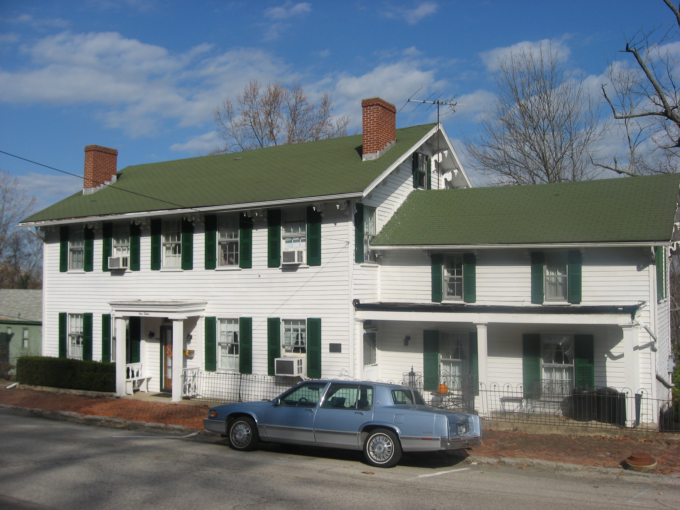 Front of the Lewis Hurlbert, Sr. House, located at 412 Fifth Street in Aurora, Indiana, United States. Built in 1844, it is listed on the National Register of Historic Places, and it is part of a Register-listed historic district, the Downtown Aurora Historic District.